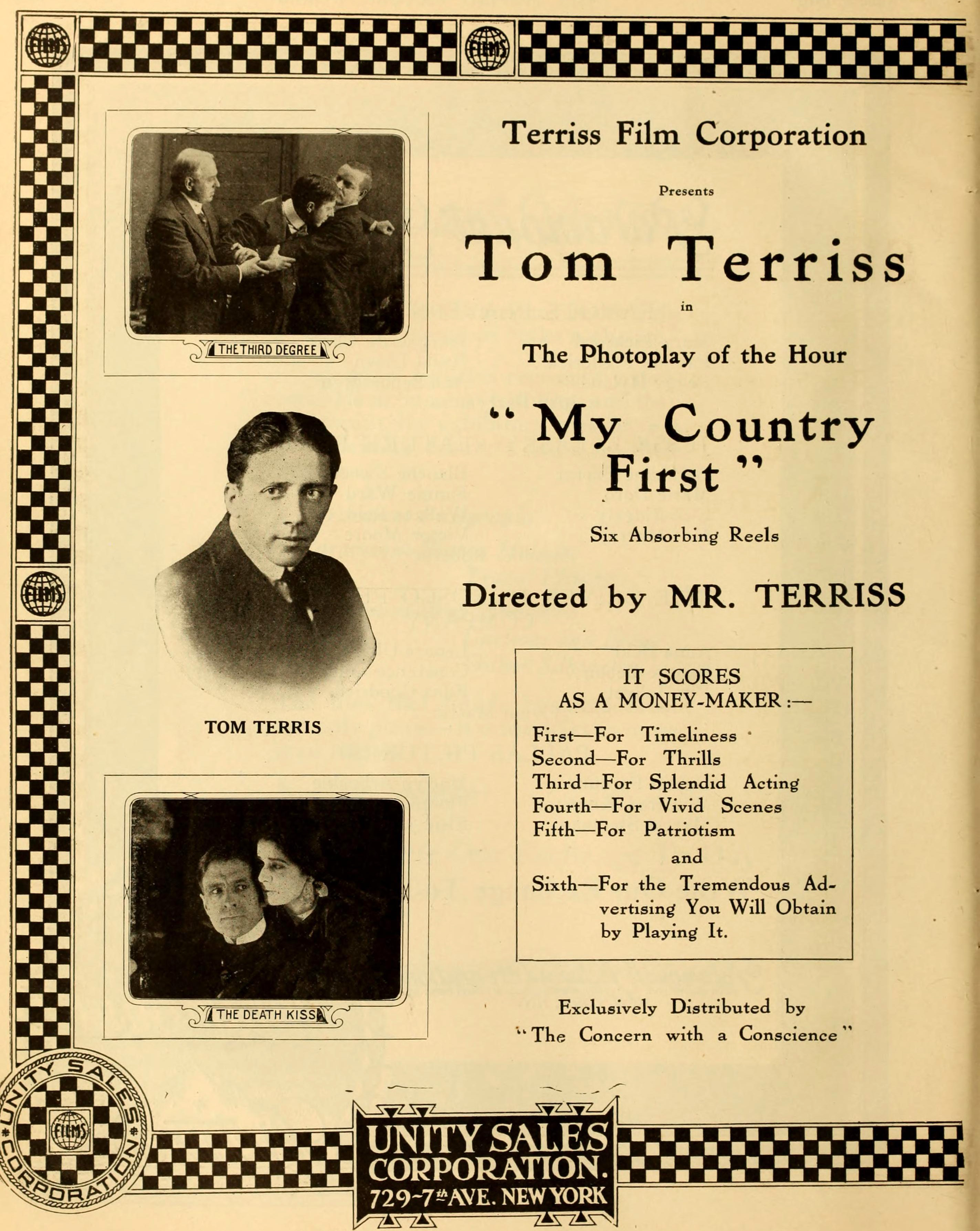 Advertisement in The Moving Picture World for the film My Country First directed by Tom Terriss.